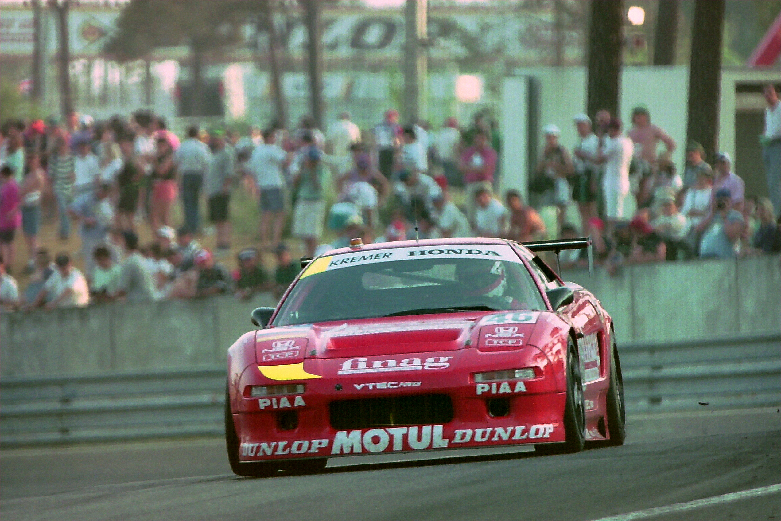 Honda NSX - Philippe Favre, Hideki Okada & Kazuo Shimizu exits the Esses at the 1994 Le Mans